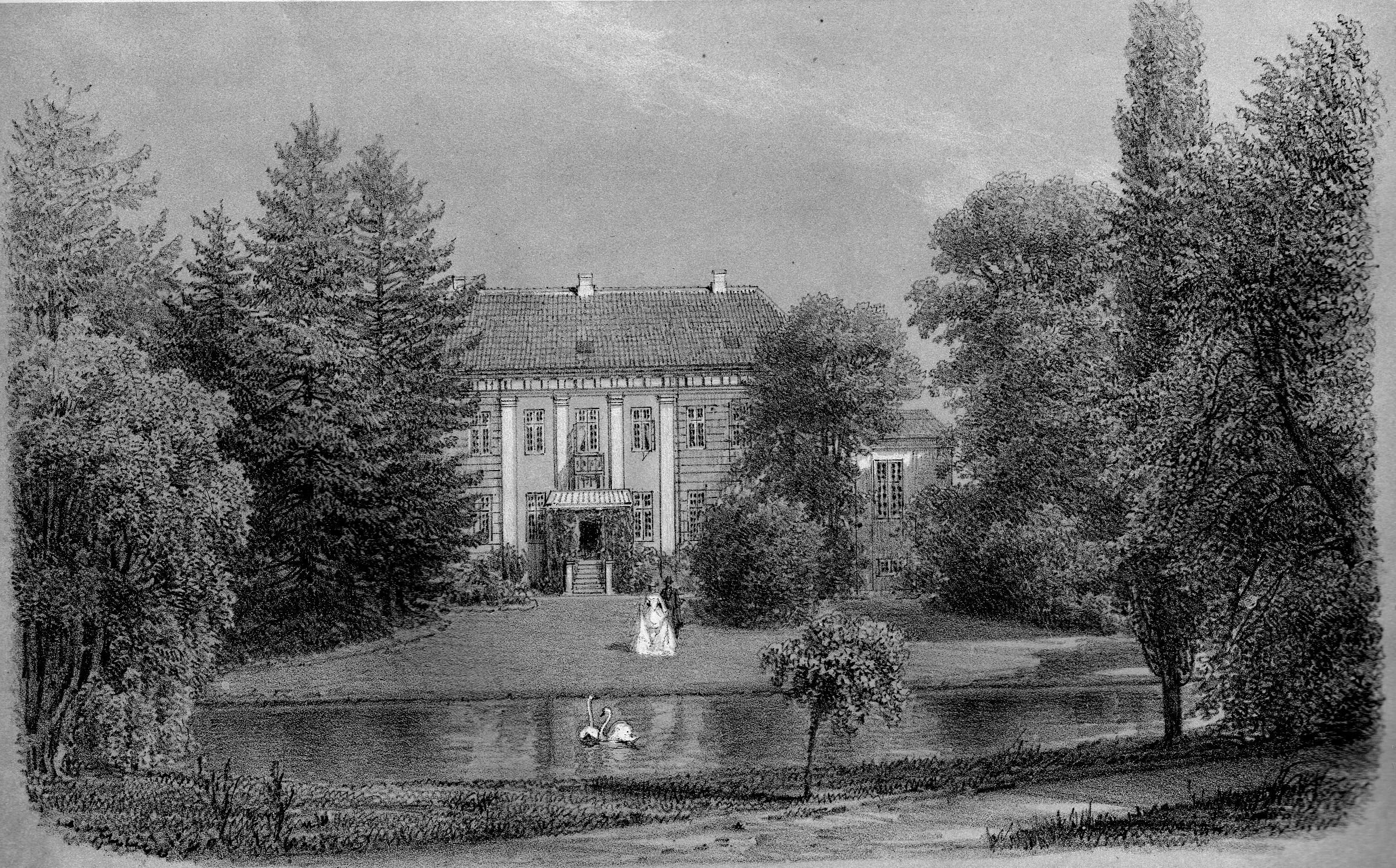 Scanned by myself from a copy of the old book in 2007. The book was graciously lent to me by Det Kongelige Garnisonsbibliotek.